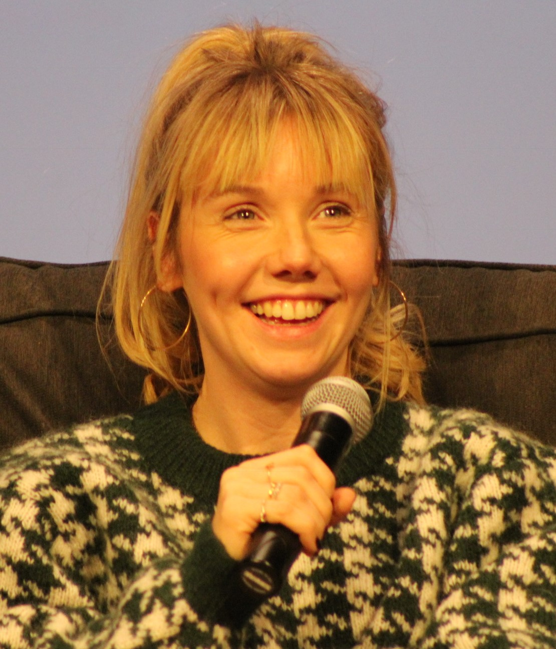 Lauren Lyle answering fan questions at the Sasnak City Outlander fan Convention in Kansas City, MO in November of 2018.